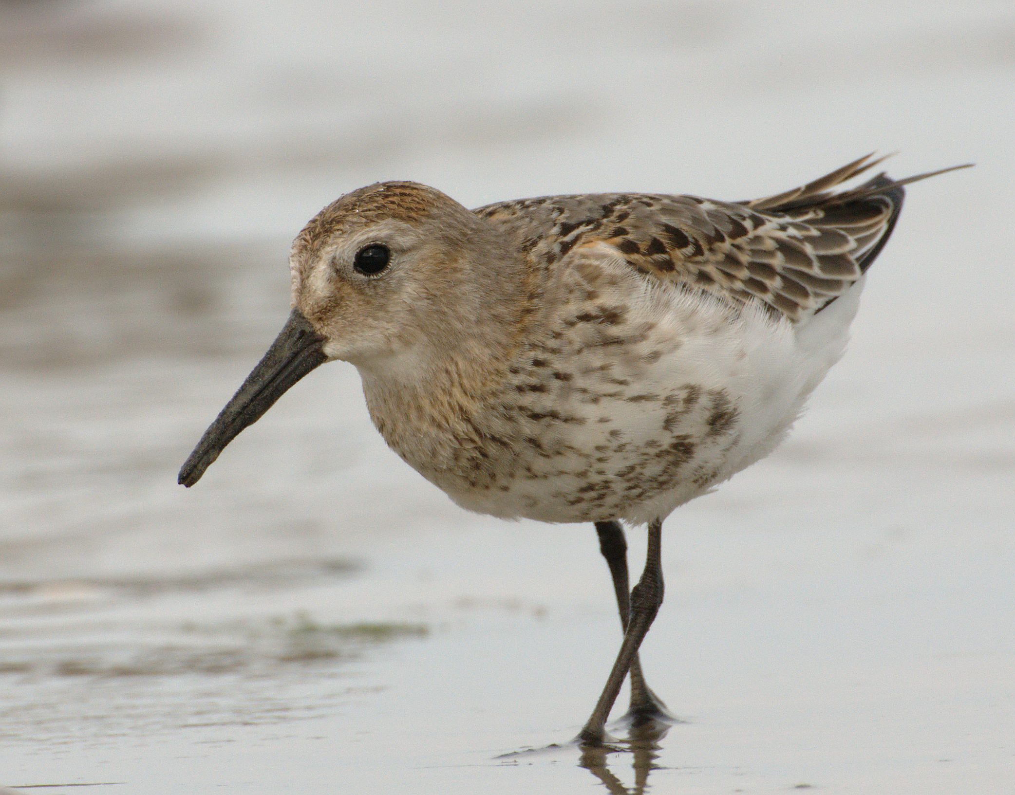 Calidris alpina, moulting from juvenile to winter plumage. Baltic Sea near Peenemünder Haken, Isle of Usedom, Mecklenburg-Vorpommern.